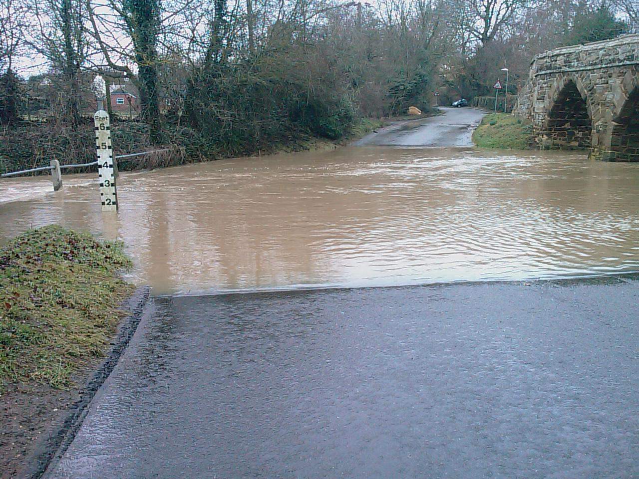 Potton Brook in flood at Sutton ford, Bedfordshire, England)